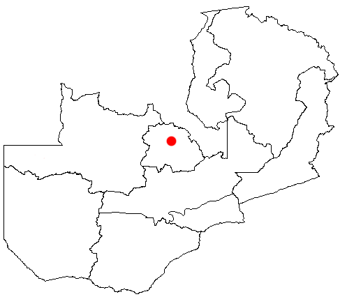 Lufwanyama, Copperbelt Province, Zambia Location Map; created with the GIMP. Made by User:Acntx.